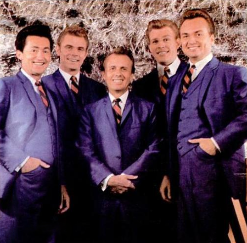 Trade ad for The Blackwood Brothers' album The Blackwood Brothers Quartet Featuring Cecil Blackwood. To better adapt it to his respective Wikipedia article, the ad was cropped and cleaned in a graphics editing program. The original can be viewed at the source below.